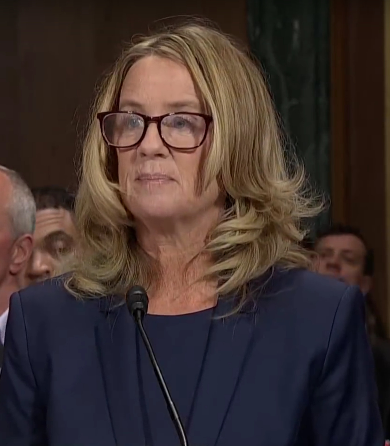 Dr. Christine Blasey Ford, psychology professor, testifies before United States Senate Commitee on the Judiciary on sexual assault allegations against Brett Kavanaugh.